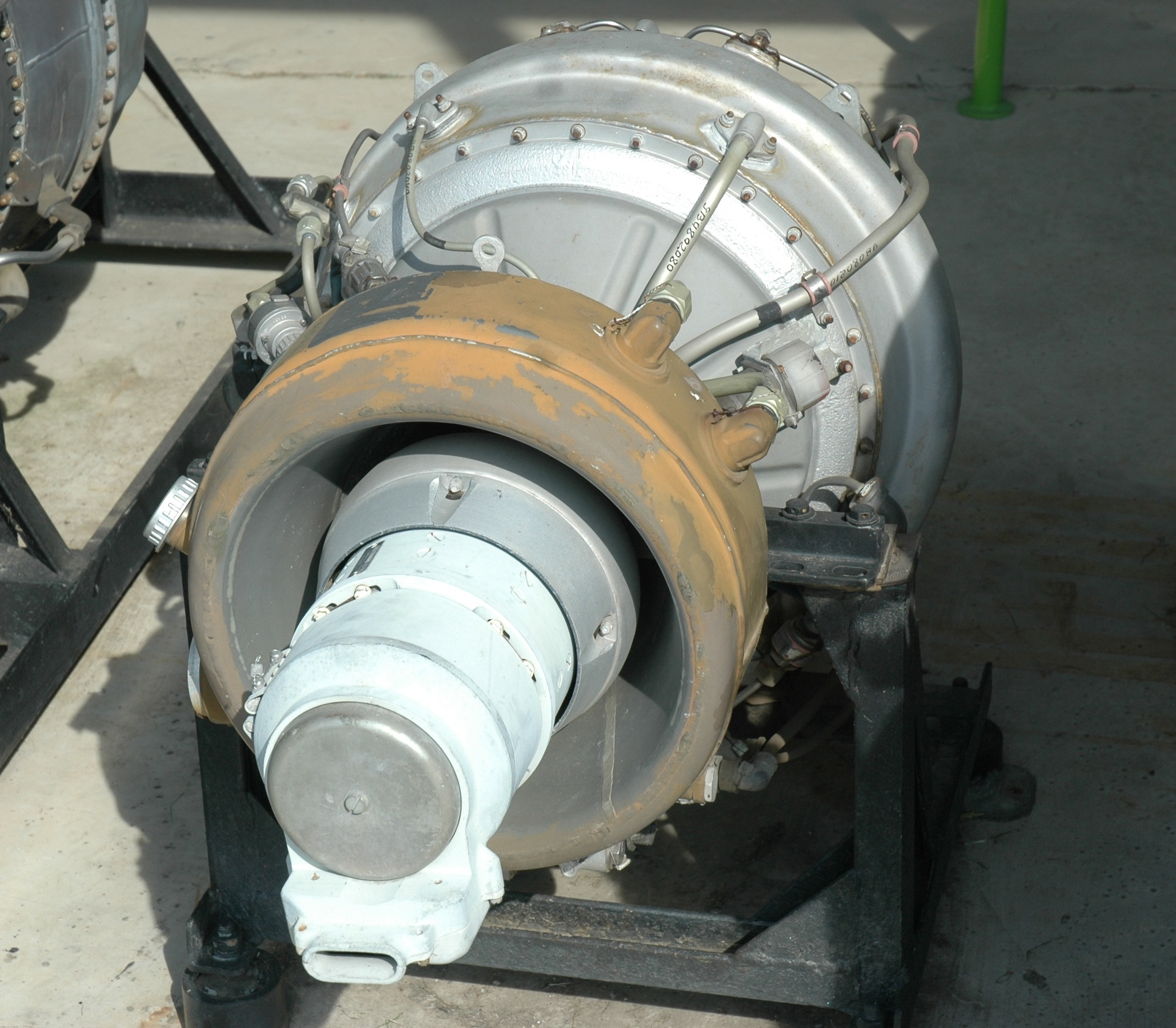 Ivchenko AI-9V auxiliary power unit